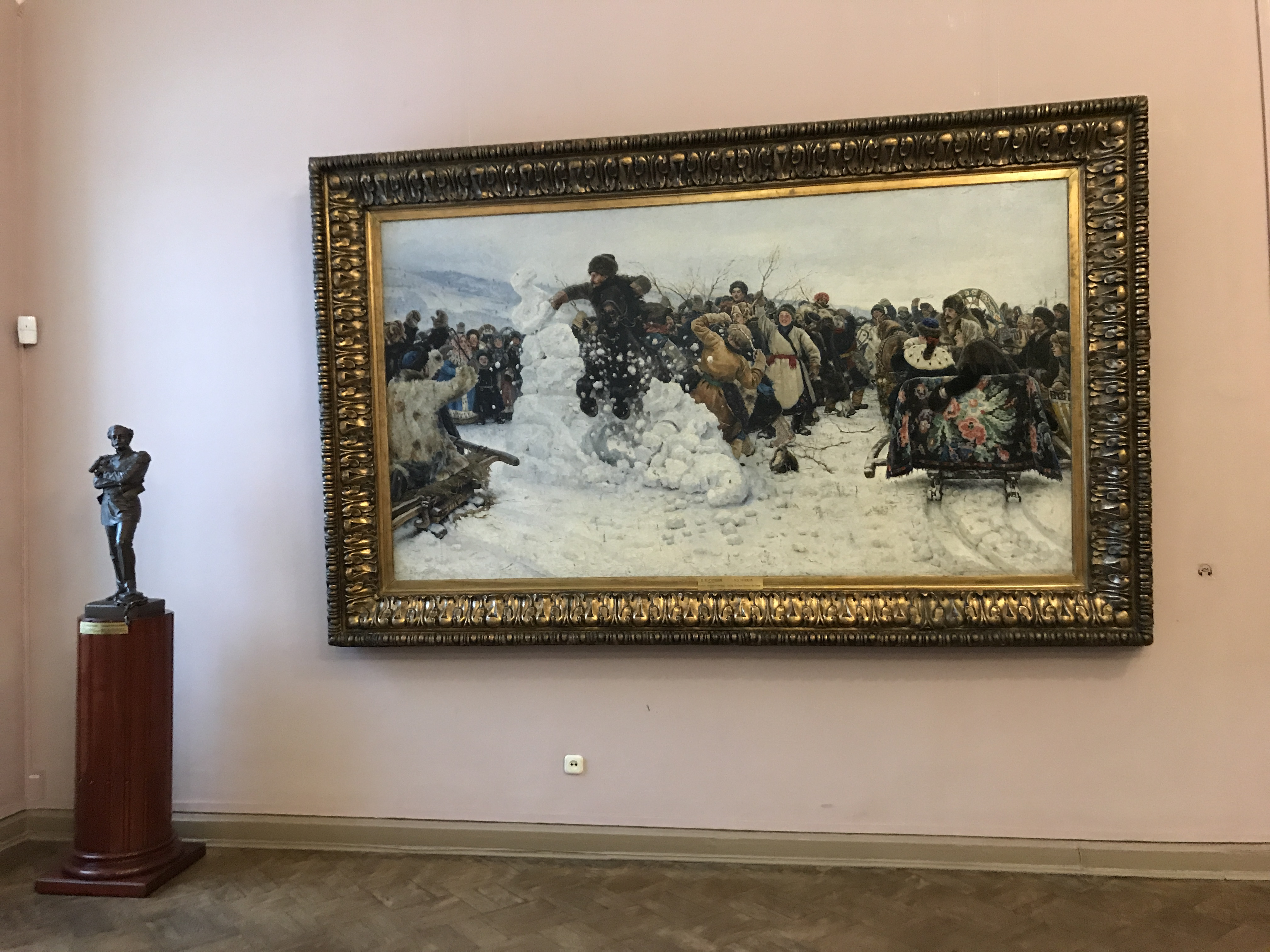 "Taking a snow town" (painting by Vasily Surikov, 1891) in the State Russian Museum